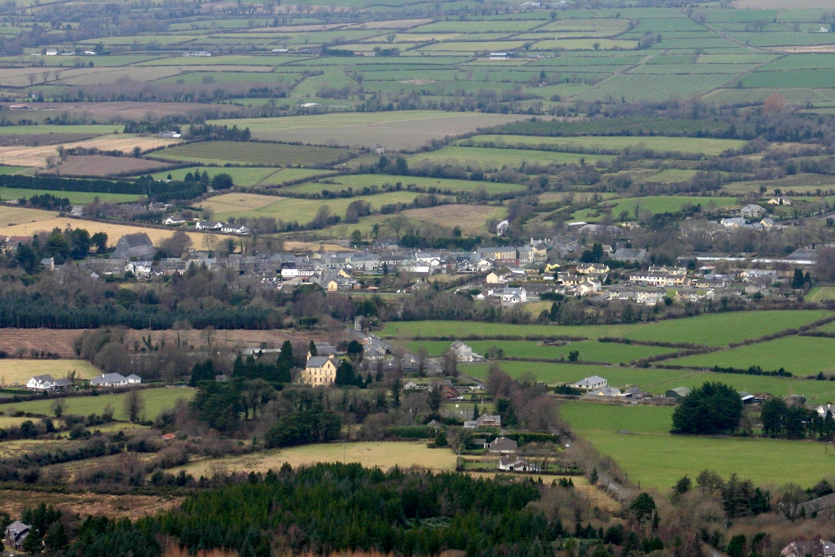 Clogheen, County Tipperary, Ireland. As seen from the nearby Knockmealdown Mountains.